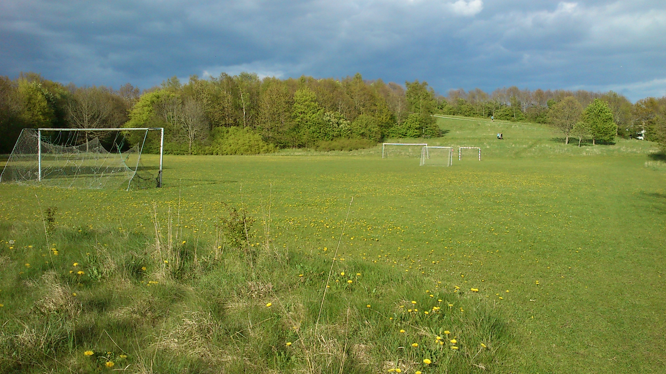 Marienlystparken